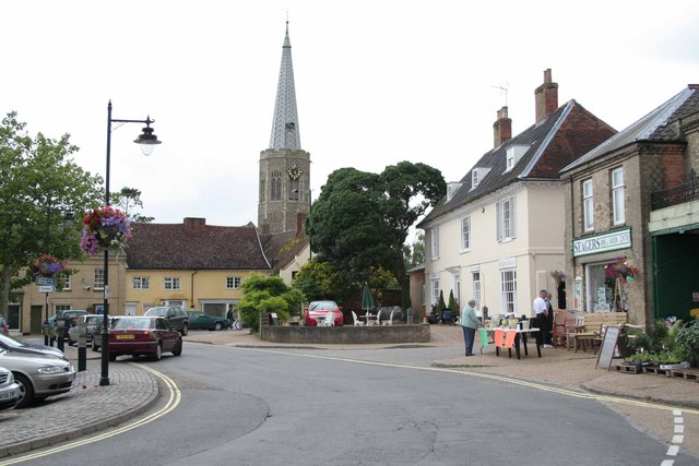 Church spire and square Wickham market